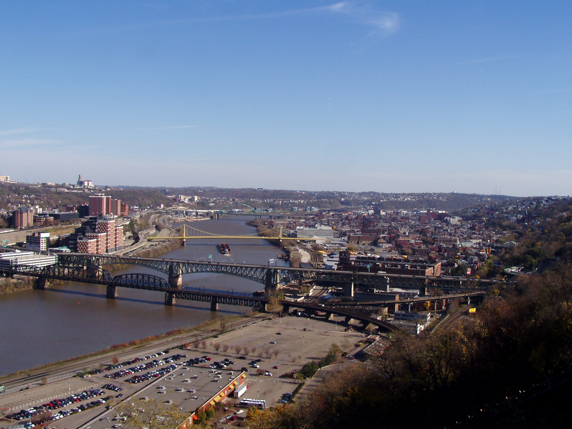 Panhandle bridge in foreground, Liberty bridge in centre and South Tenth Street bridge beyond.